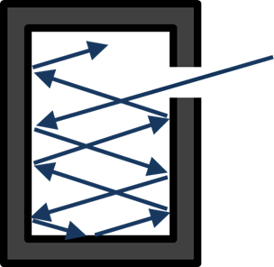 An approximate realization of a black body: light entering the hole is unlikely to come back out